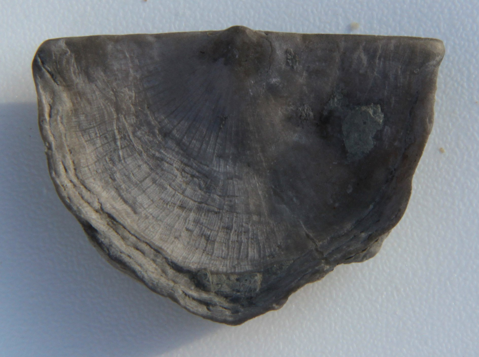 A Petrocrania scabiosa lampshell, Order Craniida, Family Craniidae, 32mm measured along the axis, pedunculate valve, collected near Maysville Bracken, Kentucky, USA, from the middle Upper Ordovician (Katian)